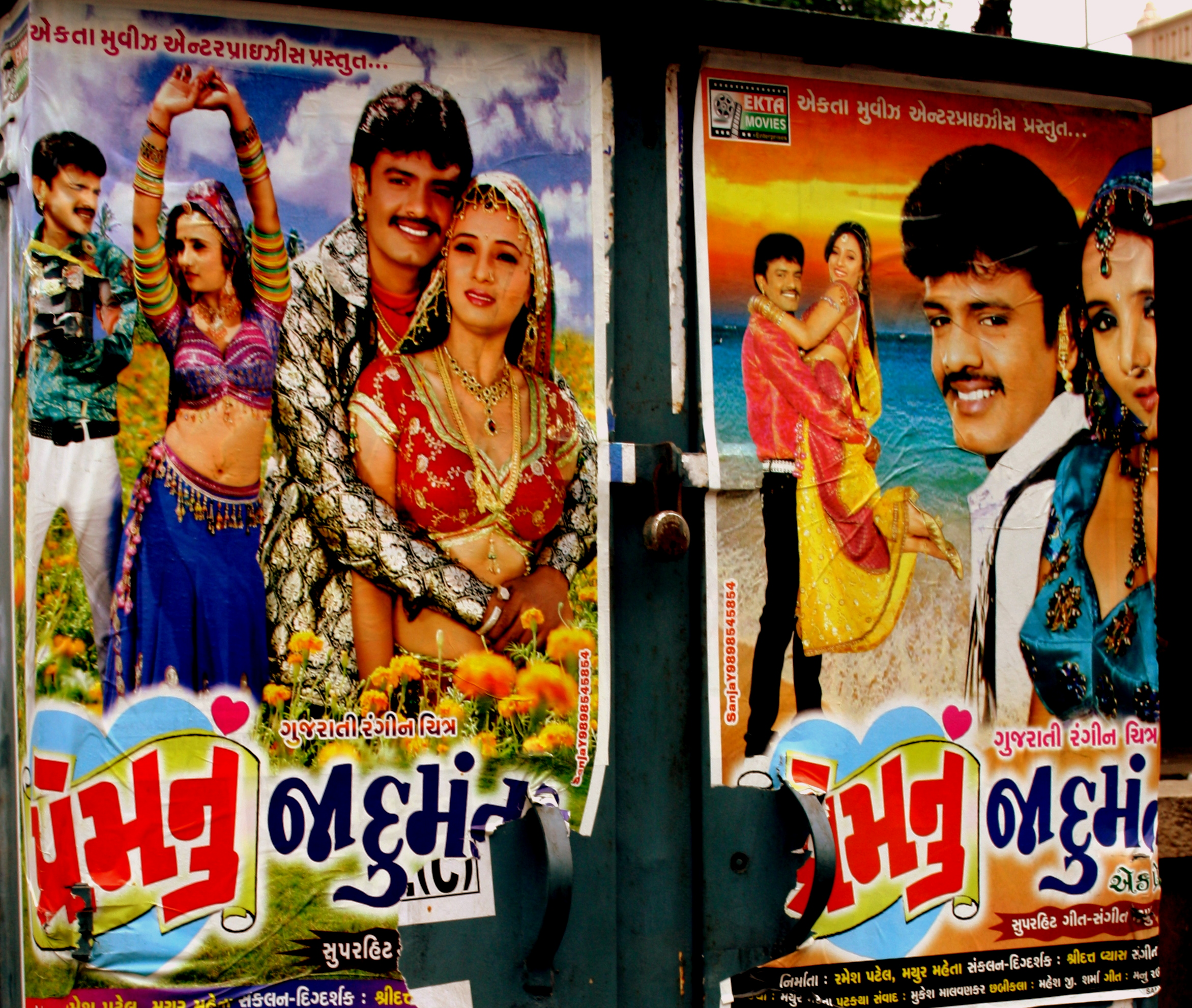 Gujarati movies